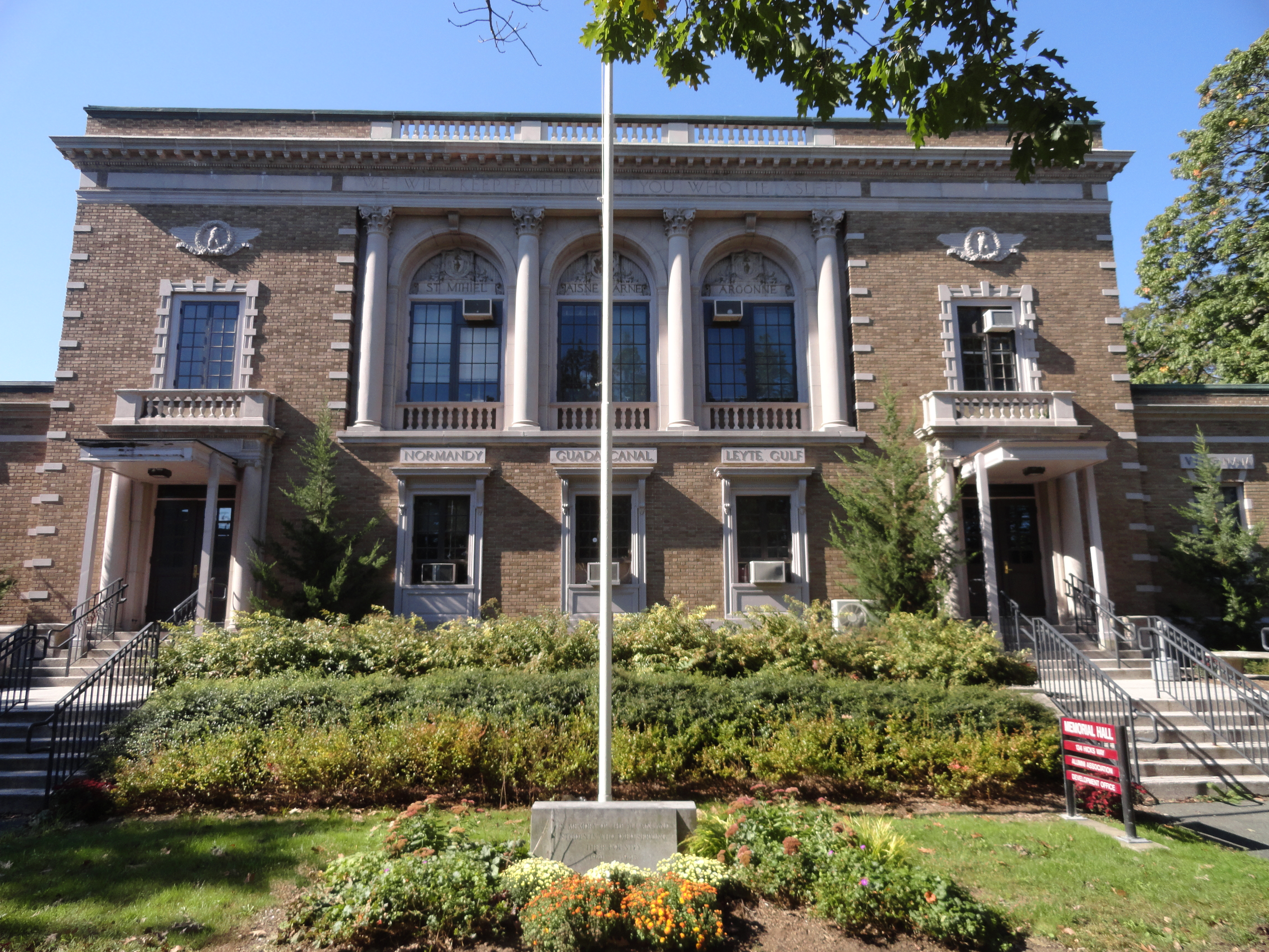 Closeup of Memorial Hall at the University of Massachusetts Amherst.